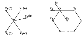 Five color theorem